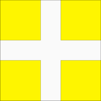 Military flag of the regiment of Normandy (French Army 18th C.)